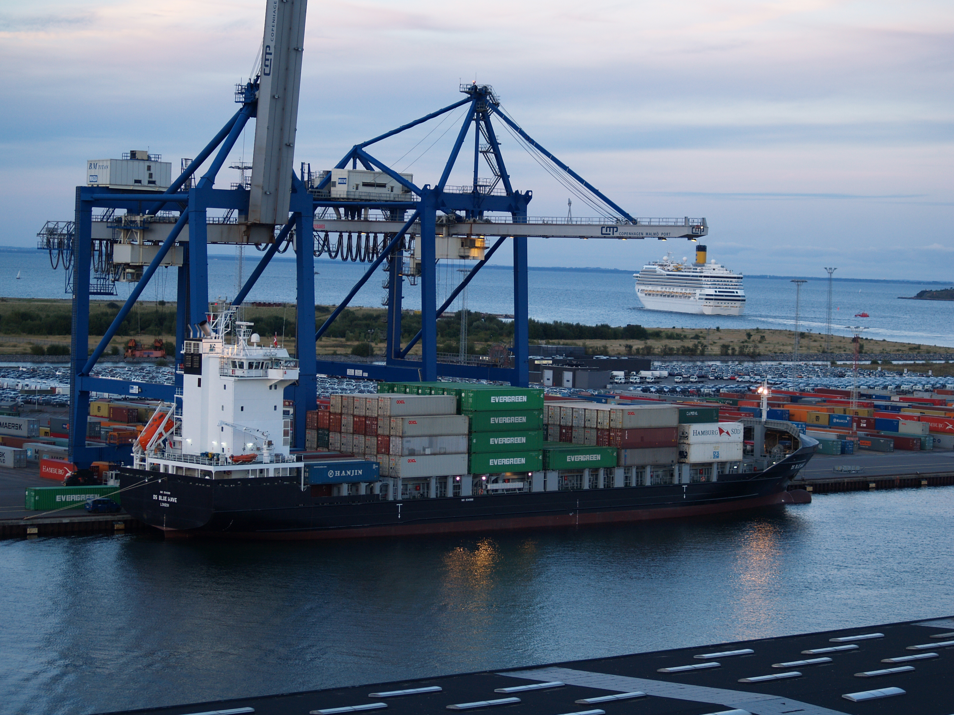 IMO number : 9341988 Name of ship : DS BLUE WAVE Call Sign : MVFD8 Gross tonnage : 7545 Type of ship : Container Ship Year of build : 2007 Flag : United Kingdom Status of ship : In Service